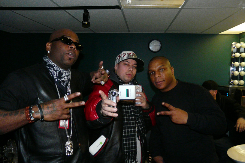 Naughty by Nature at Toronto's Circa for CMW 2009 w/ Griz on the Grind